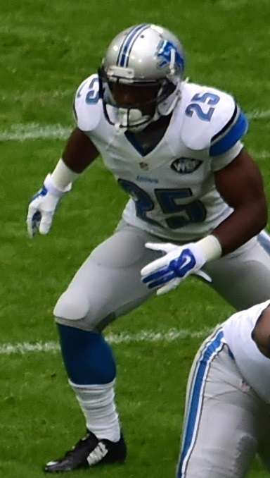 Detroit Lions vs Atlanta Falcons - Wembley 2014